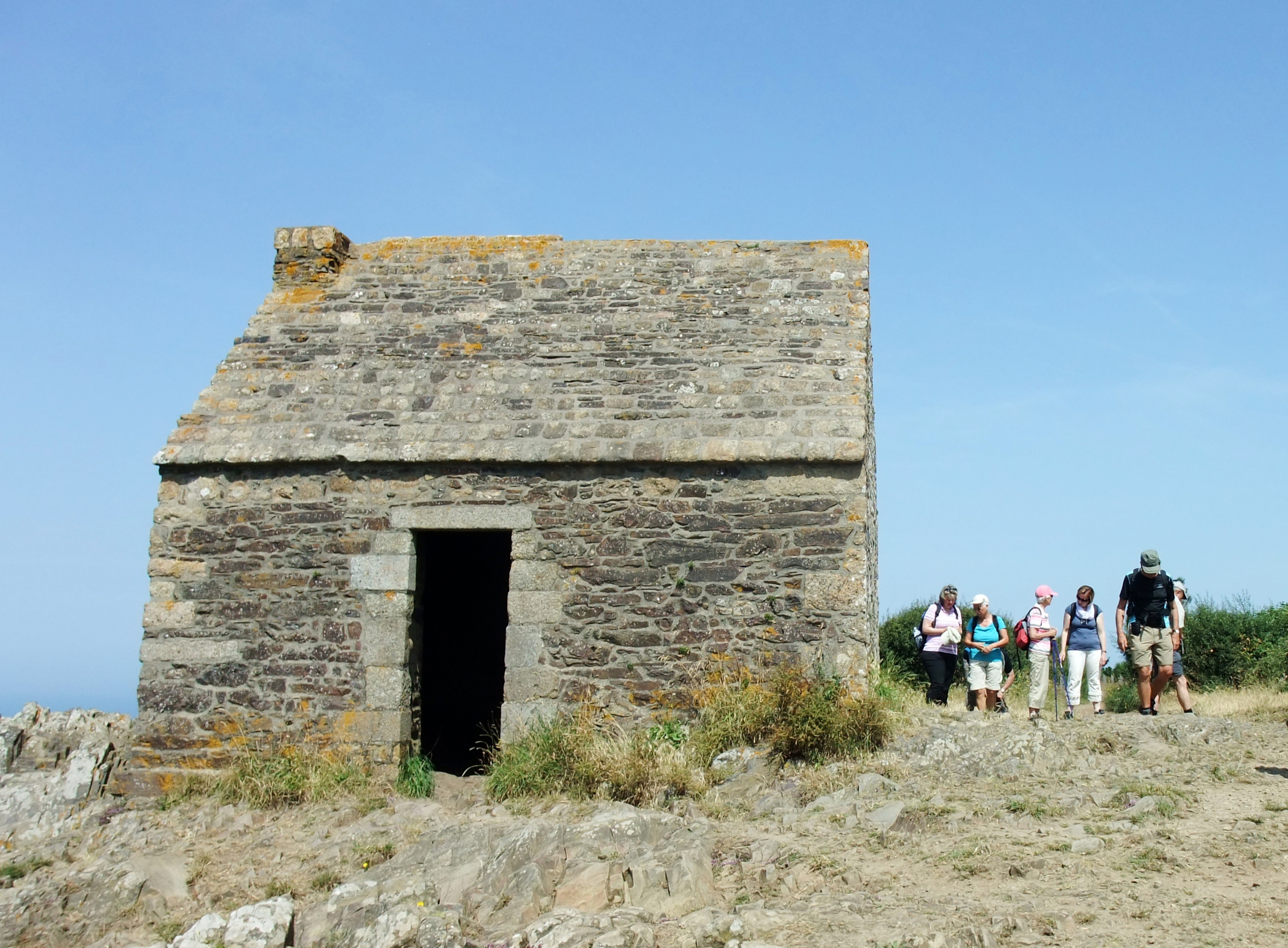 The Guard house Cabane Vauban above the beach of Carolles, France